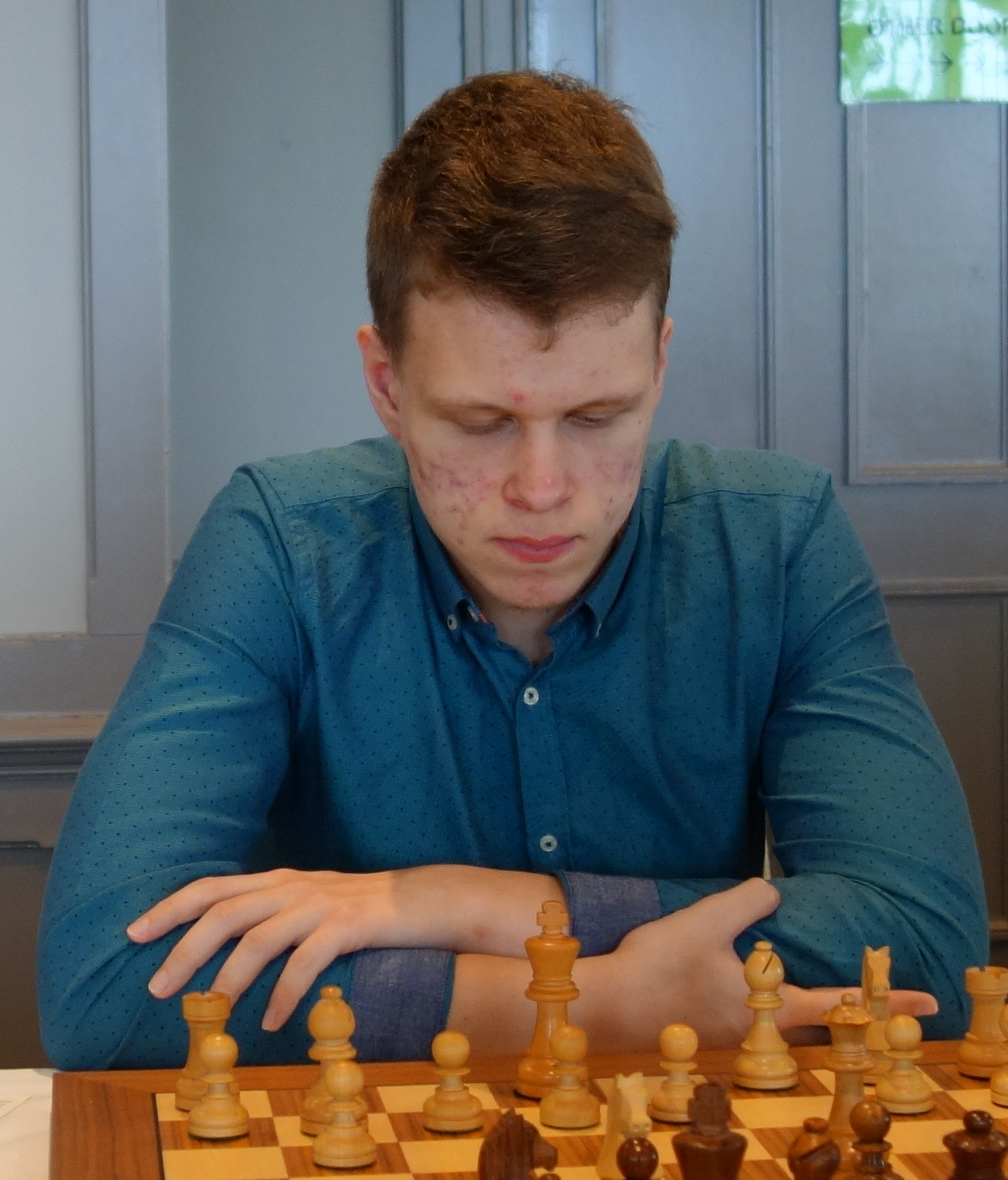 Vladislav Artemiev, chess grandmaster from Russia, 2019